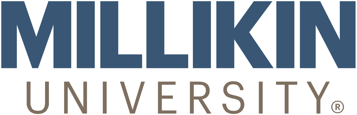 Logo for Millikin University.